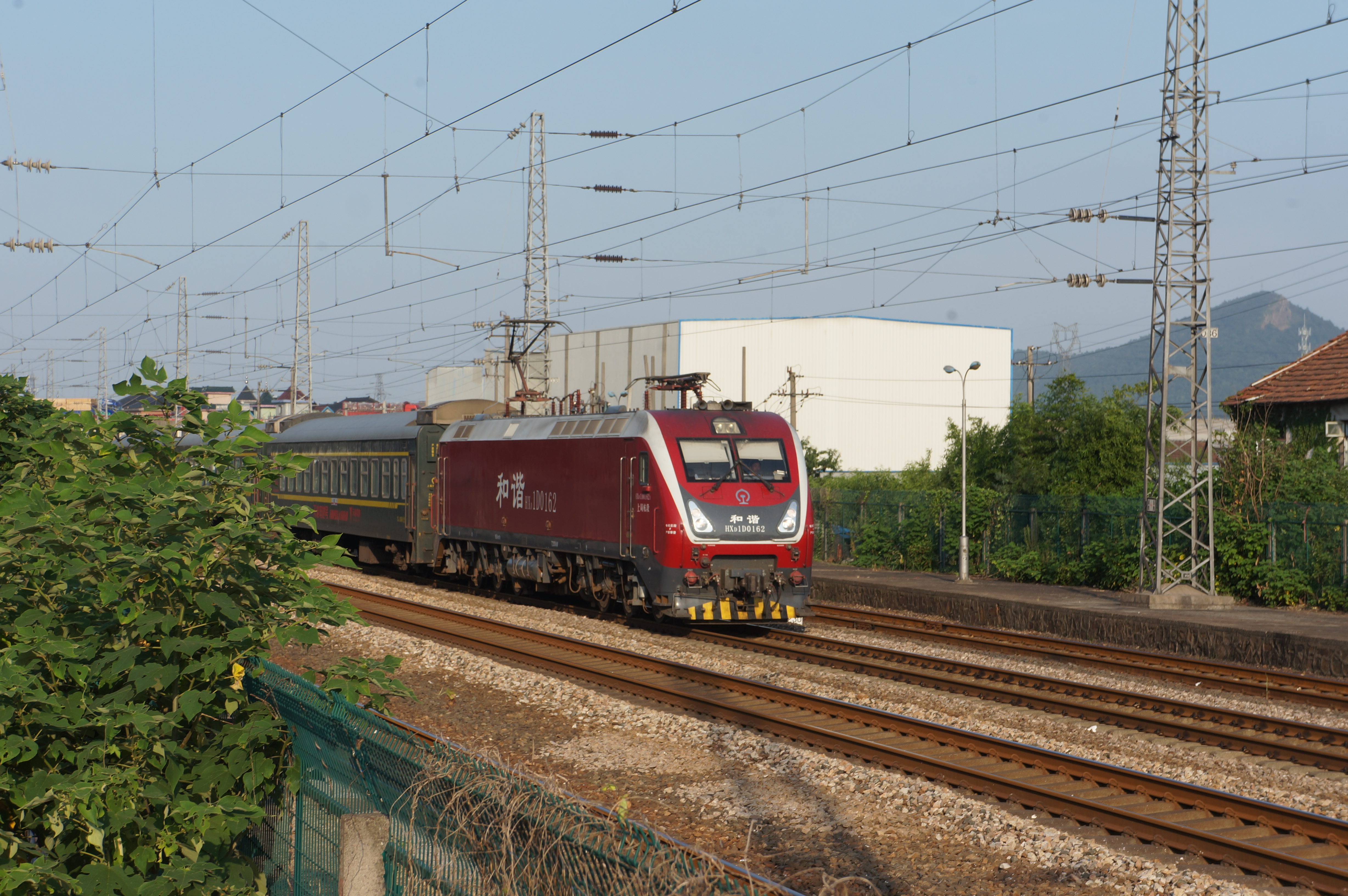 C U again...201607 K212 passes Xiajiaqiao Station